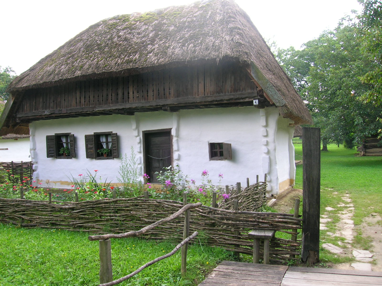 Old peasant home. Göcsej Village Museum, Zalaegerszeg, Hungary.